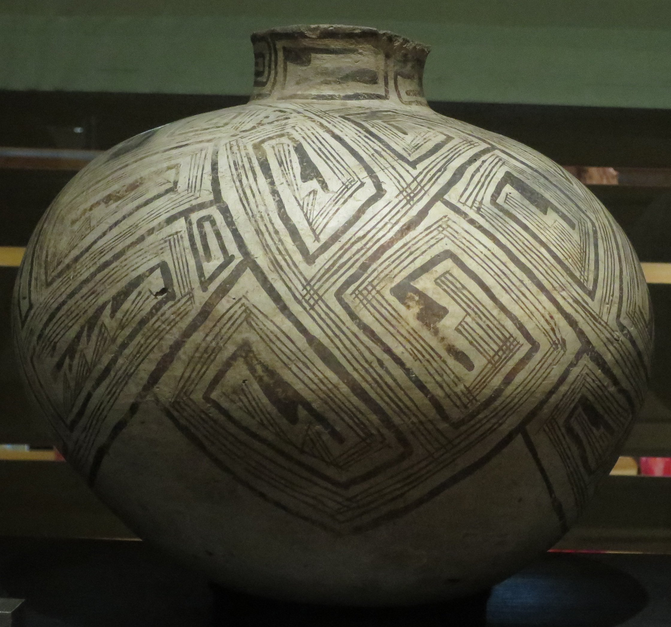 Ancestral Pueblo, Reserve black on white jar, 1050-1100 CE, Heard Museum